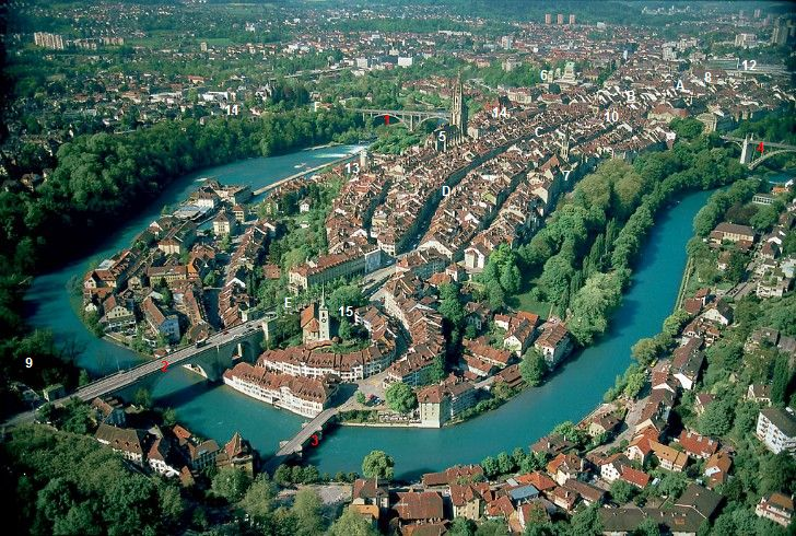 An aerial photo of Bern.